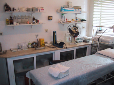 AHBVPA-PostoMedicoEnfermagem